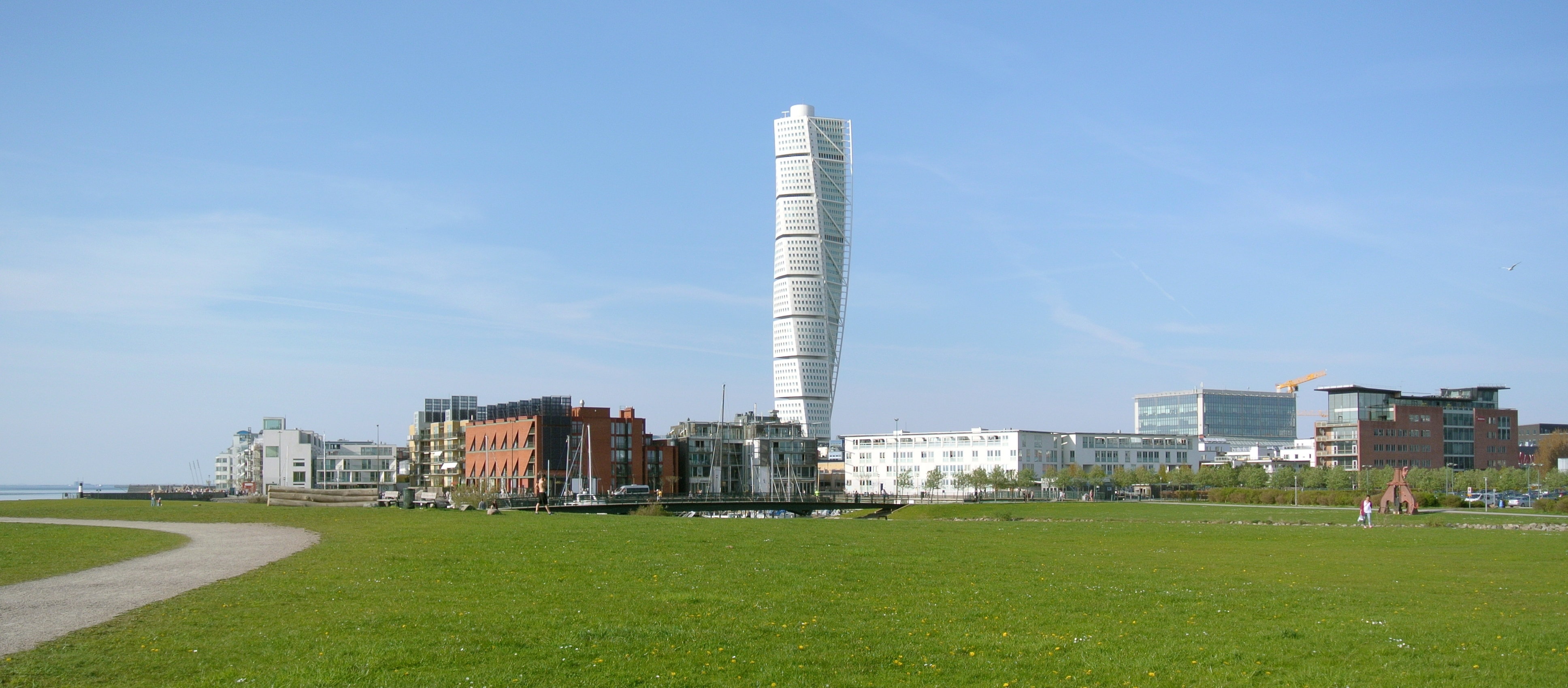 Panorama of Västra hamnen (Malmö), seen towards northeast from Ribersborgsstranden.